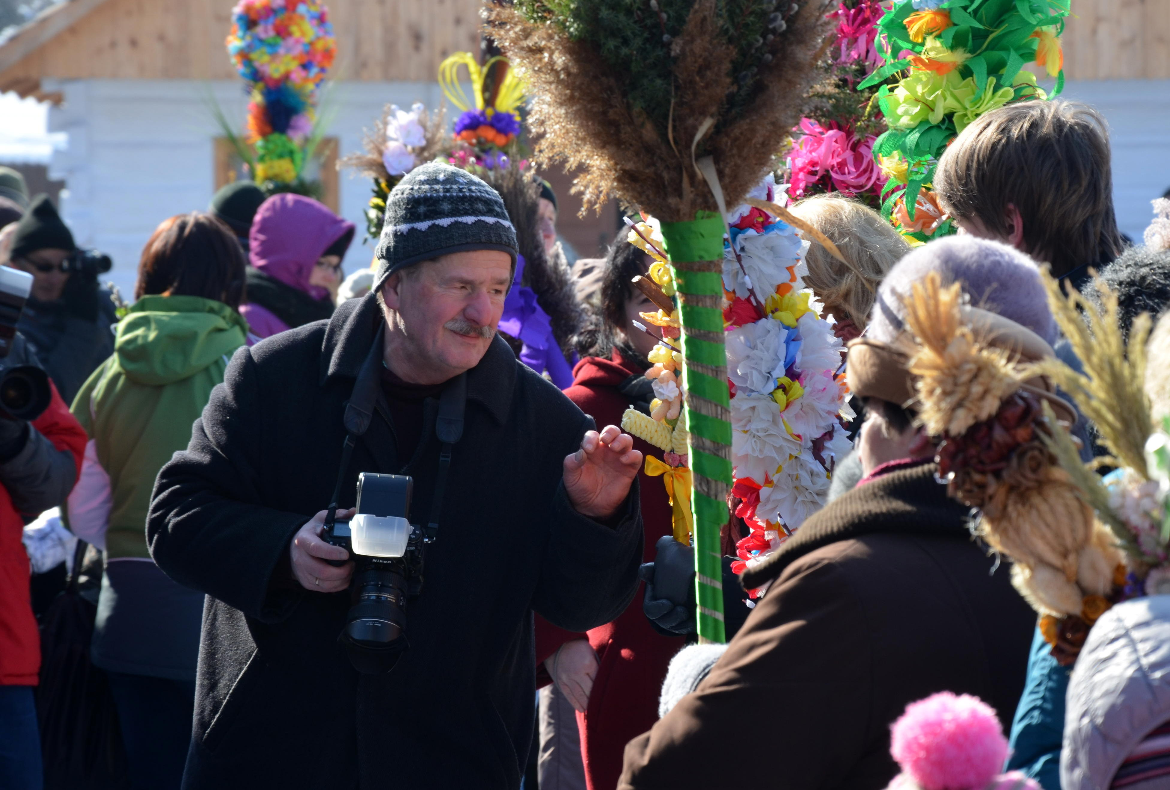 Zygmunt Nater